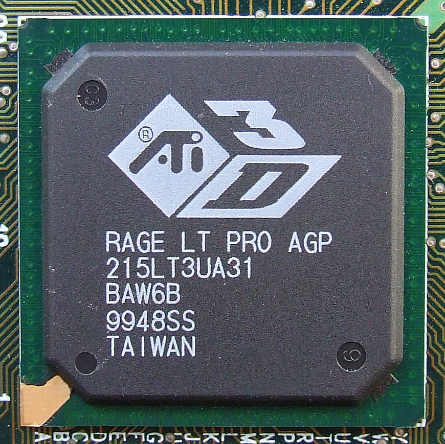 ATI Rage LT Pro AGP graphics processing unit.